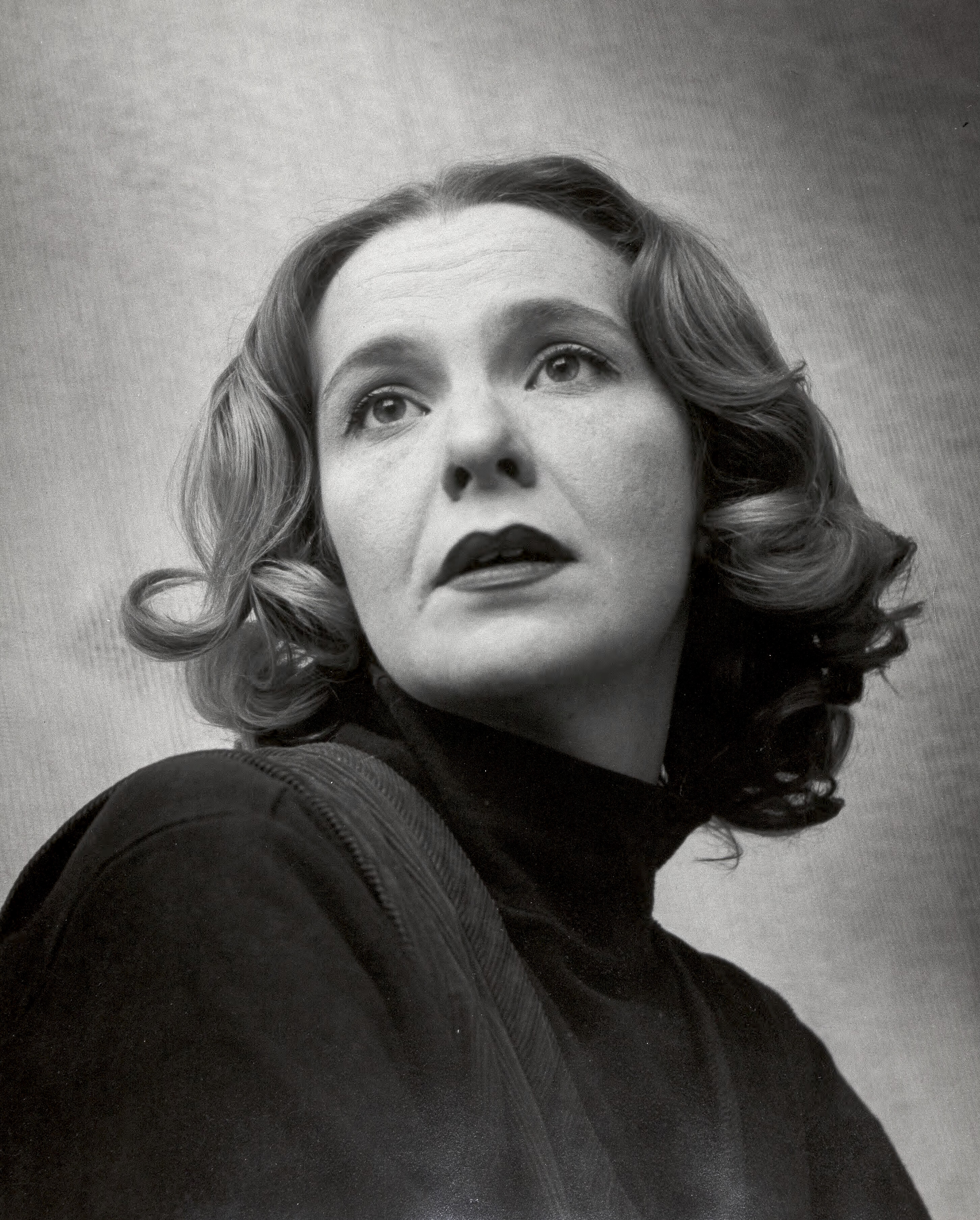 Headshot of Geraldine Page by Roy Schatt